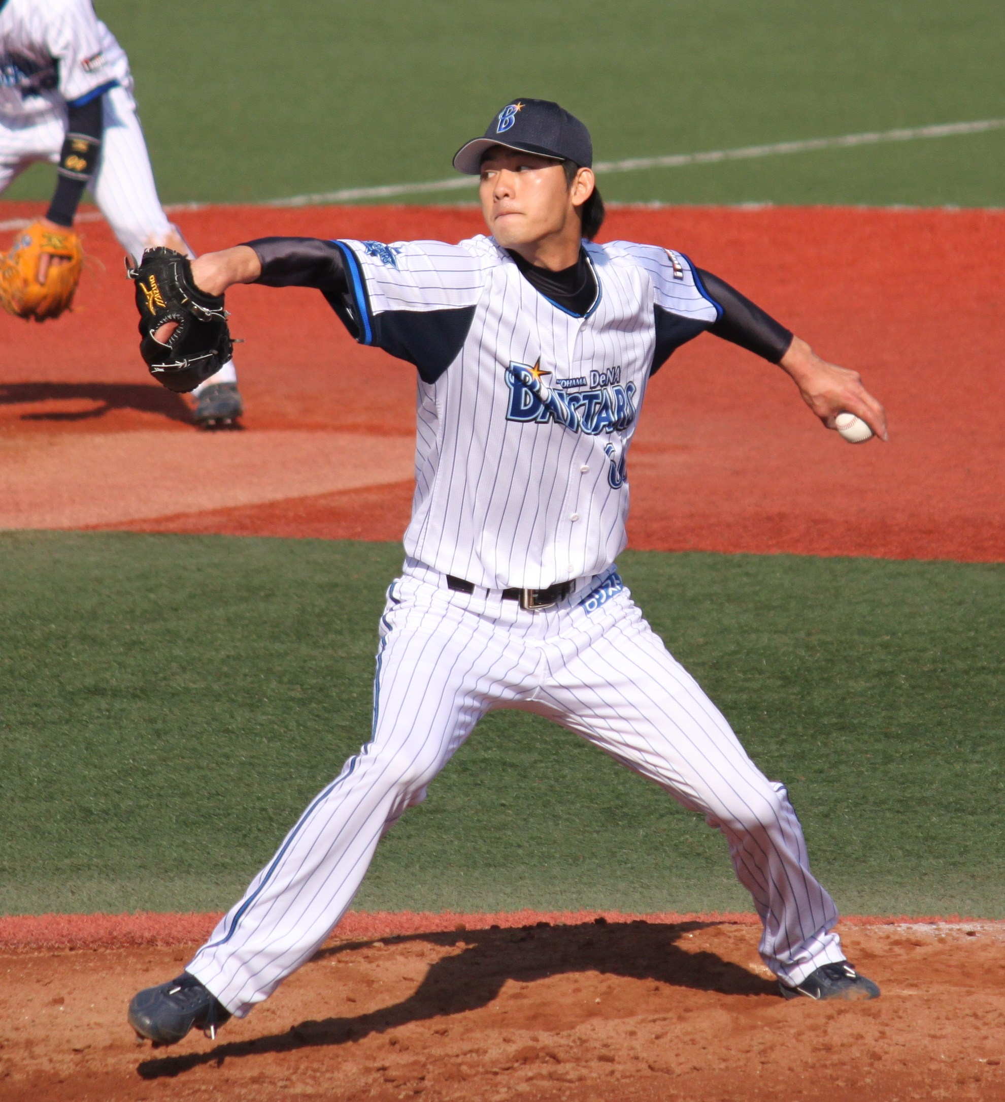 I-Cheng Wang, pitcher of the Yokohama DeNA BayStars, at Yokosuka Stadium.